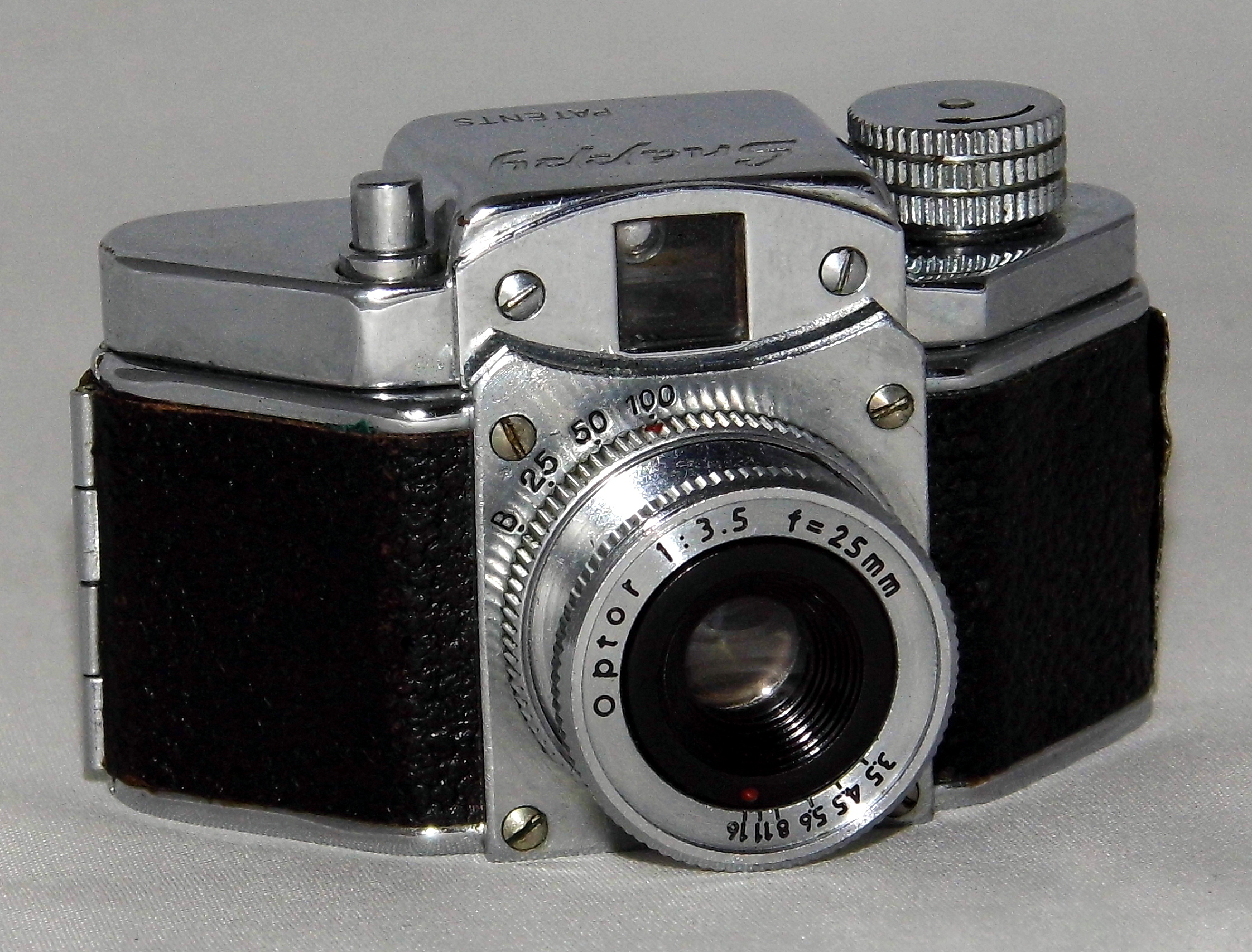 Advertised in the Detroit Free Press newspaper of December 10, 1949, for $9.95.